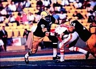 A football card from the 1986 Jeno's Pizza NFL football card stickers set of Green Bay Packers defensive linemen Willie Davis (left) and Henry Jordan (right) tackle Kansas City Chiefs quarterback Len Dawson (middle) in Super Bowl I. The card is numbered #15 in the set. The back of the card reads: THE PACKERS MAKE HISTORY Green Bay all-pros Willie Davis (87) and Henry Jordan trap Kansas City quarterback Len Dawson, as the Packers uphold the honor of the NFL by beating the Chiefs 35-10 in Super Bowl I. In the first meeting ever of teams from the NFL and AFL, Green Bay outscored Kansas City 21-0 in the second half.